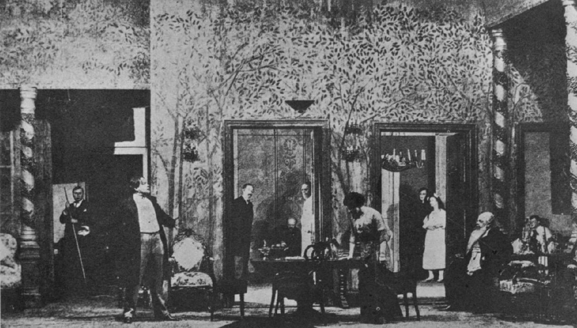 Scene from The Cherry Orchard, Moscow Art Theater, 1904.The MAT setting demonstrates a conscious attempt to avoid the stiffness and artificiality of the perfectly symmetrical box set. Variation of planes and glimpses into other rooms in the house continue the environment beyond the stage room and help to combat unintentional rigidity.